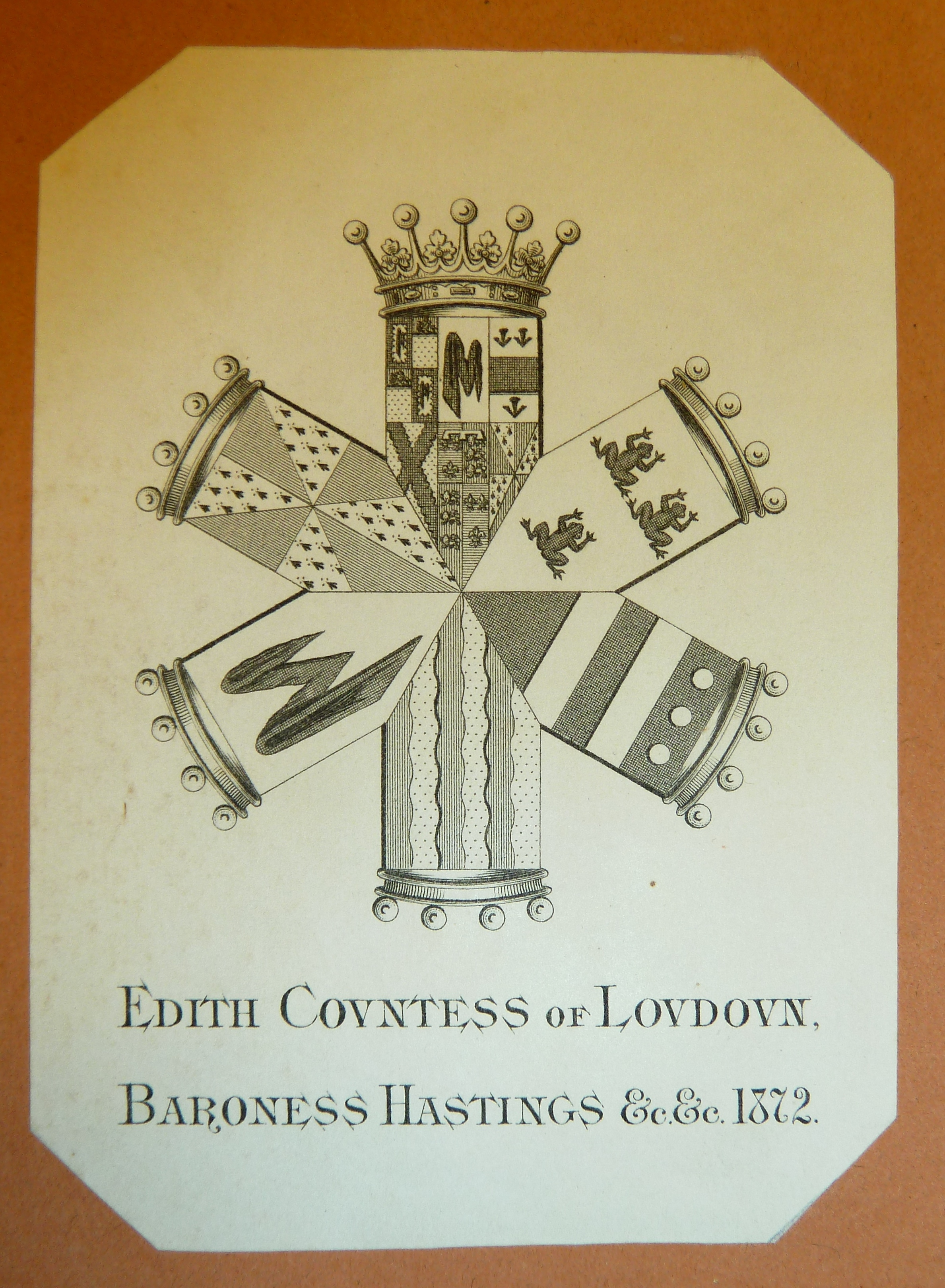 Established heading: Loudoun, Edith Maud, Countess of, 1833-1874 Edith Countess of Loudoun, Baroness Hastings &c &c 1872 Penn Libraries call number: EC85 T7488 862o copy 1 Flickr data on 2011-08-12: Camera: Panasonic DMC-ZS5 Tags: EC85 T7488 862o copy 1, Bookplates, Armorial bookplates, Loudoun, Edith Maud, Countess of, 1833-1874, English Culture Class Collection, Culture Class Collection, Penn Libraries, Provenance License: CC BY 2.0 User: kladcat